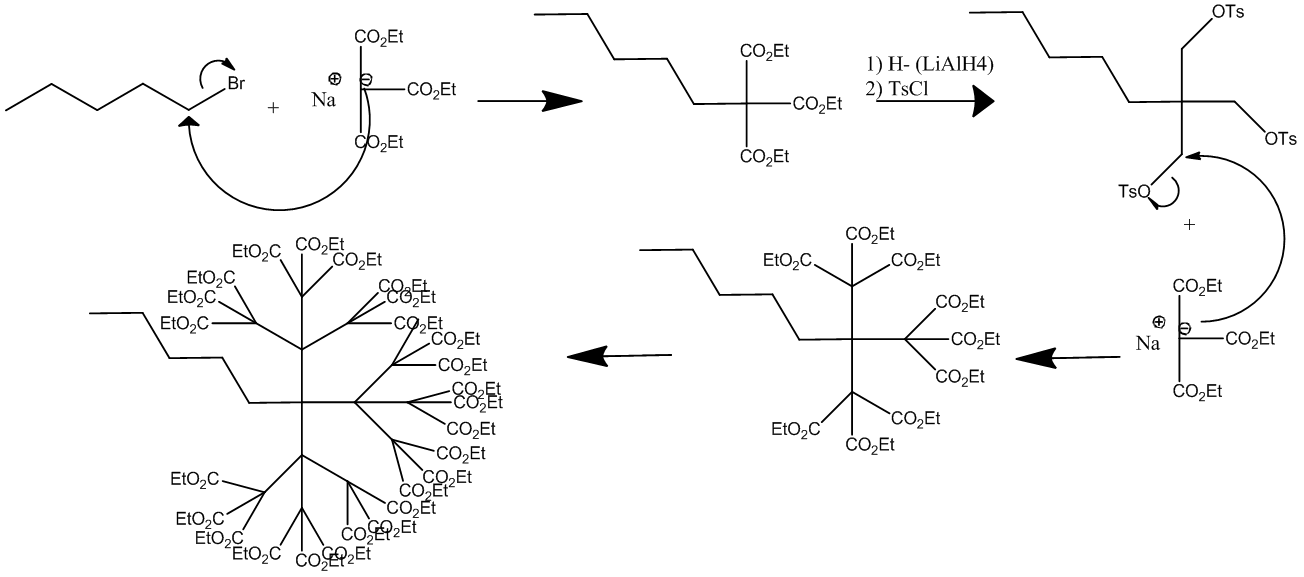 Synthetic route to arborol.